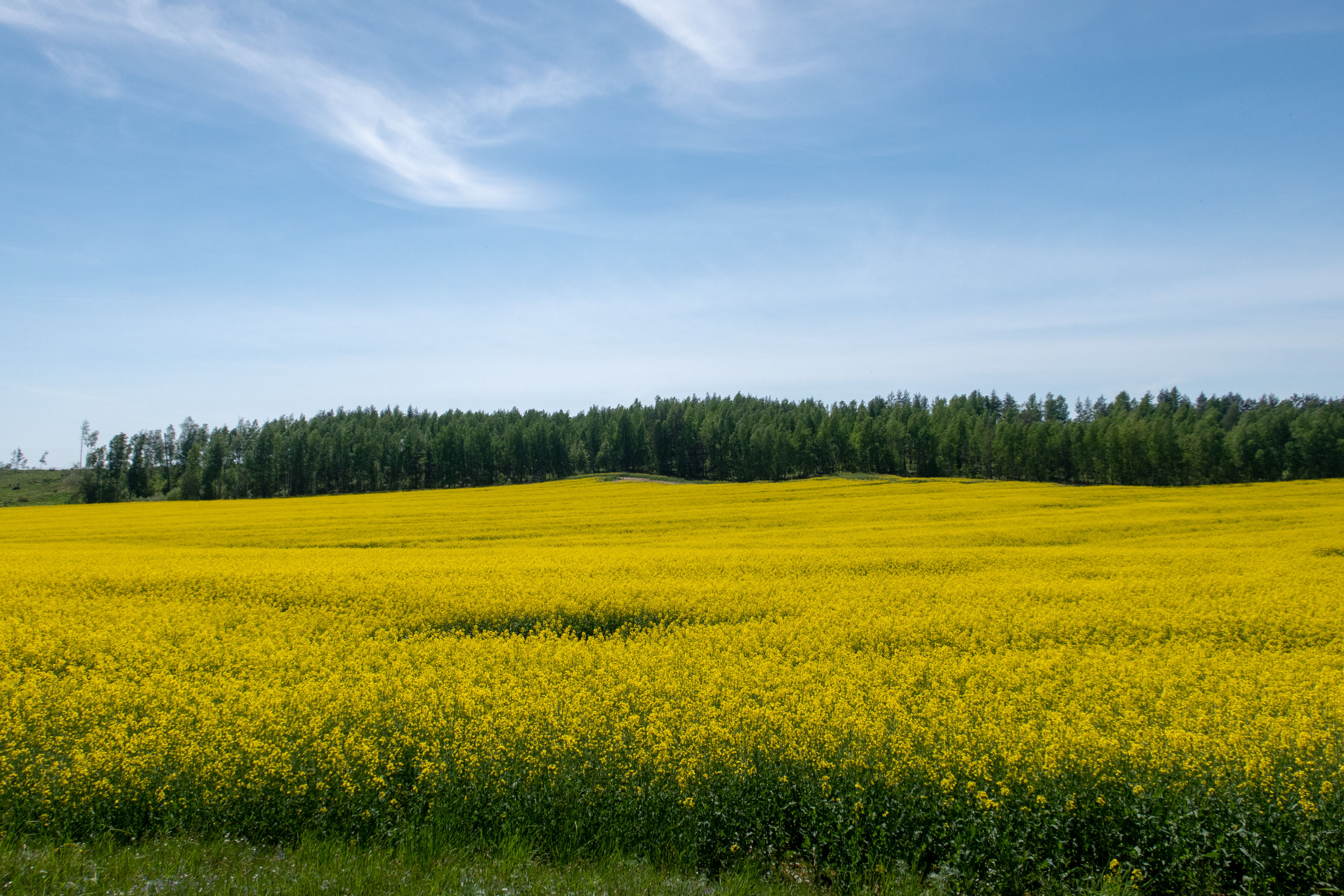 Rapeseed field near Minsk (Belarus)